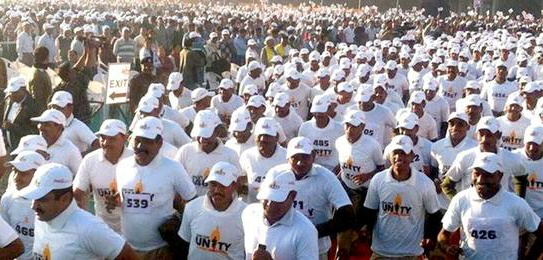 Participants taking part in Run for Unity